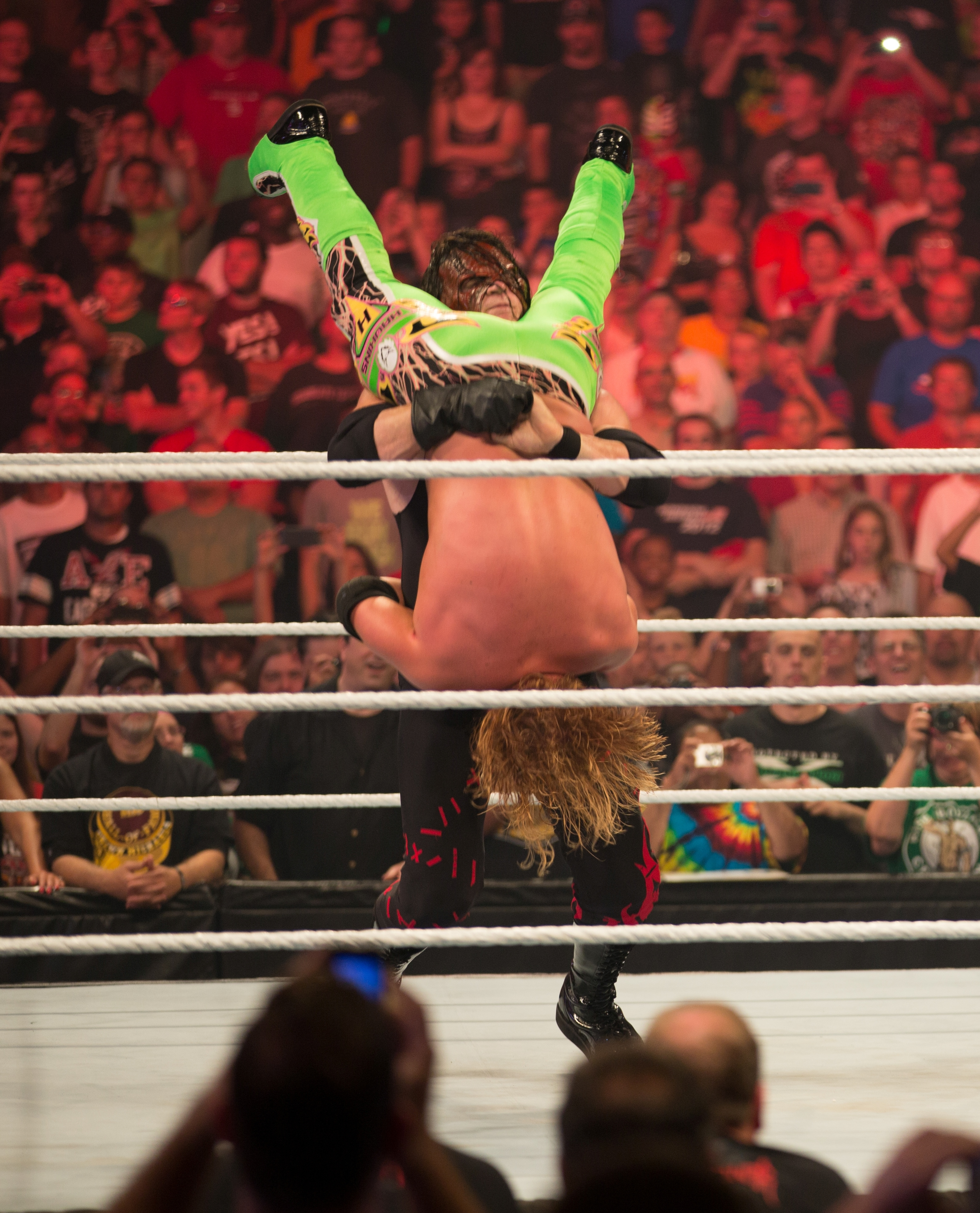 Kane about to execute Tombstone Piledriver on Curt Hawkins